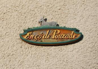 En ço de Pouzadé (Chez Pouzadé)à Bourréac (Canton de Lourdes): pouzadé signifie lieu de repos ou de halte, vraisemblablement autrefois pour les attelages à traction animale, après la montée de la route conduisant à Bourréac depuis Lézignan ou depuis Paréac. La maison Pouzadé avait autrefois un élevage de mules.